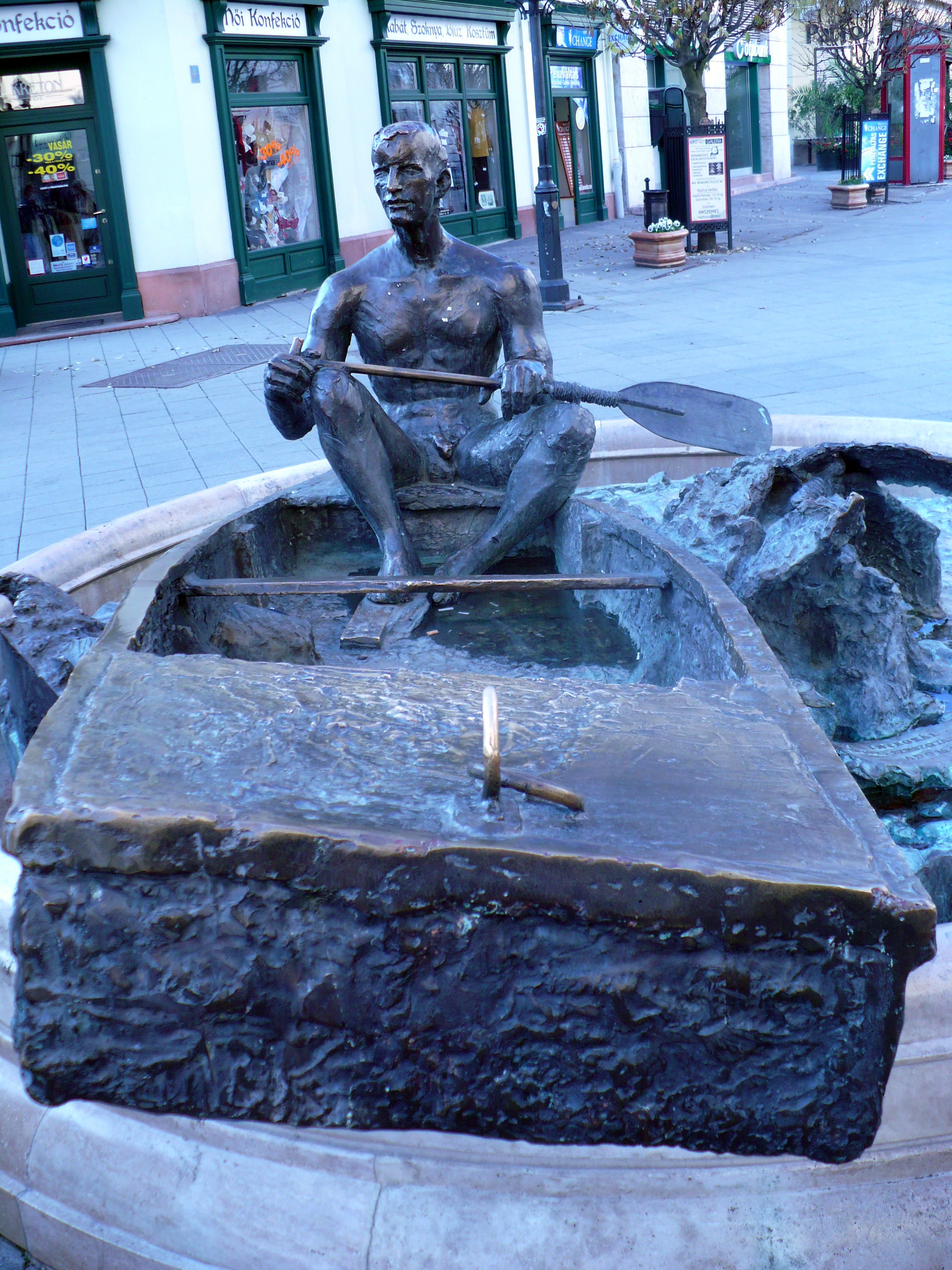 Statue of sailor, Győr.